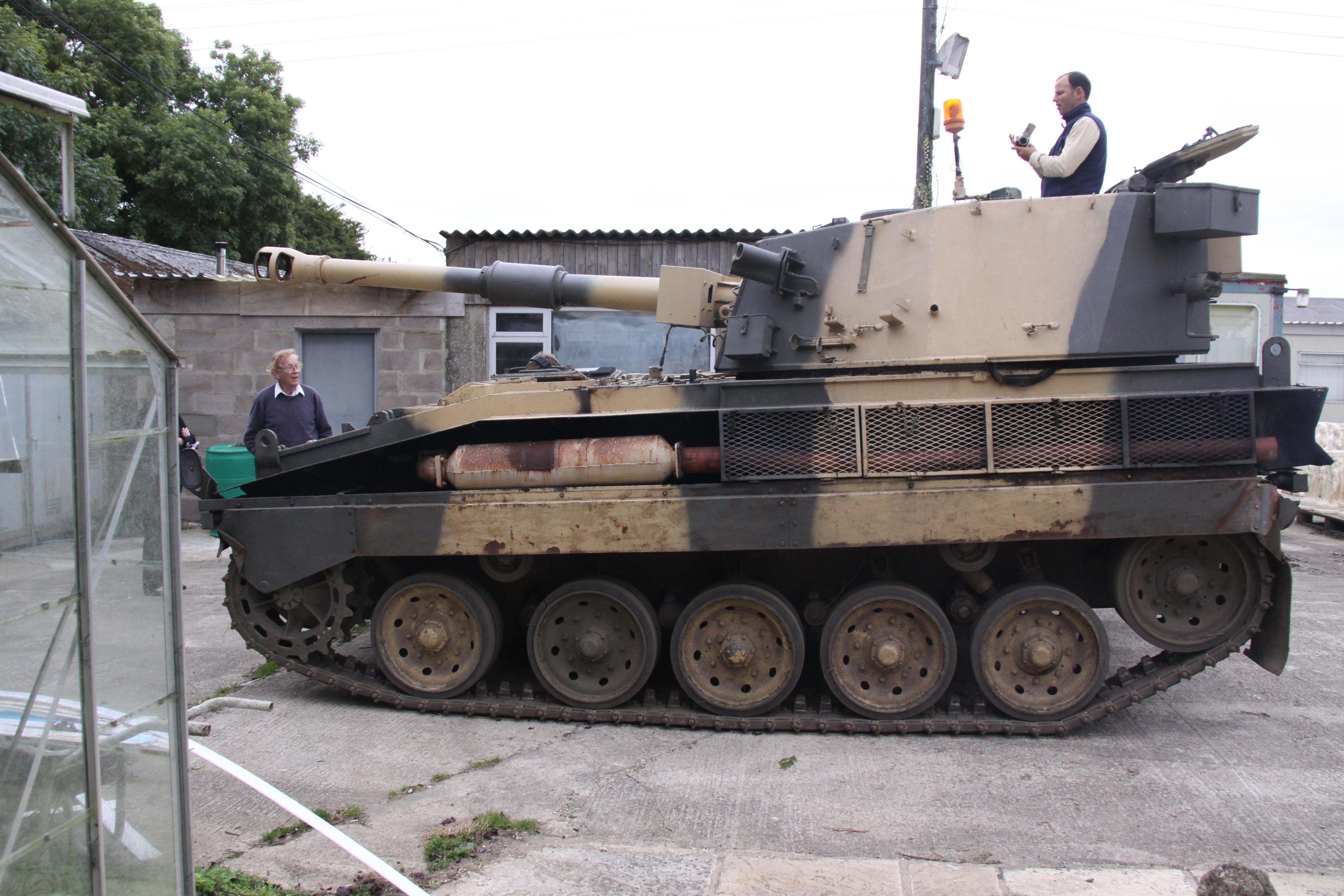 abbot tank spg picture